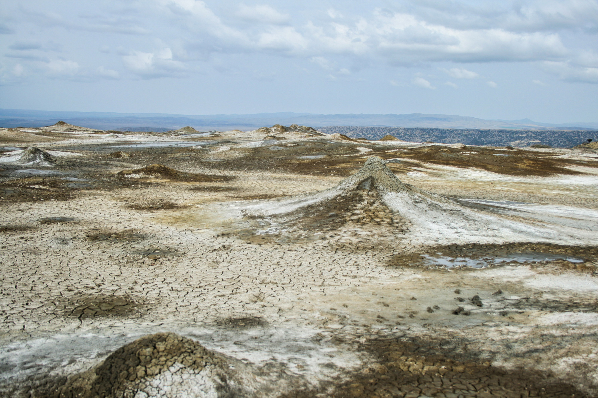 Takhti-Tepha Natural Monument Attraction: Takhti-Tepha is an inorganic natural monument that occupies 1 hectare and consists of bubbling mud craters erupting from the ground. It is located to the south of Dali water reservoir, paralel to Takhti-Tepha mountain range. The craters, along with small open vents are constantly active, erupting mud, oil and gas. The length of the pedestrian path to Takhti-Tepha is 0.5 km or 30 minutes. The total area of the natural monument is 9.7 ha.